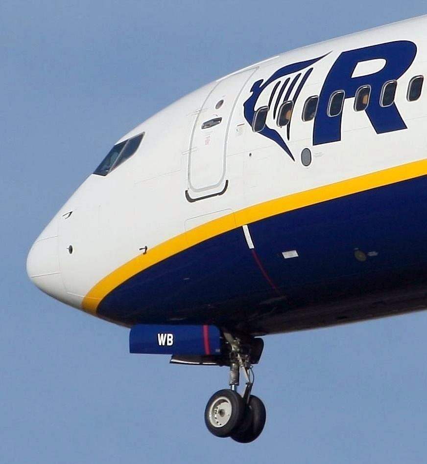 EI-DWB/WB - RYR5483 OPO - MAD33L, 21.11.08 15.27h. - Boeing 737-8AS/W, cn 36075/2382, ff 4.9.07 as N........., Ryanair dd 18.9.07 - in serv 24.11.18.